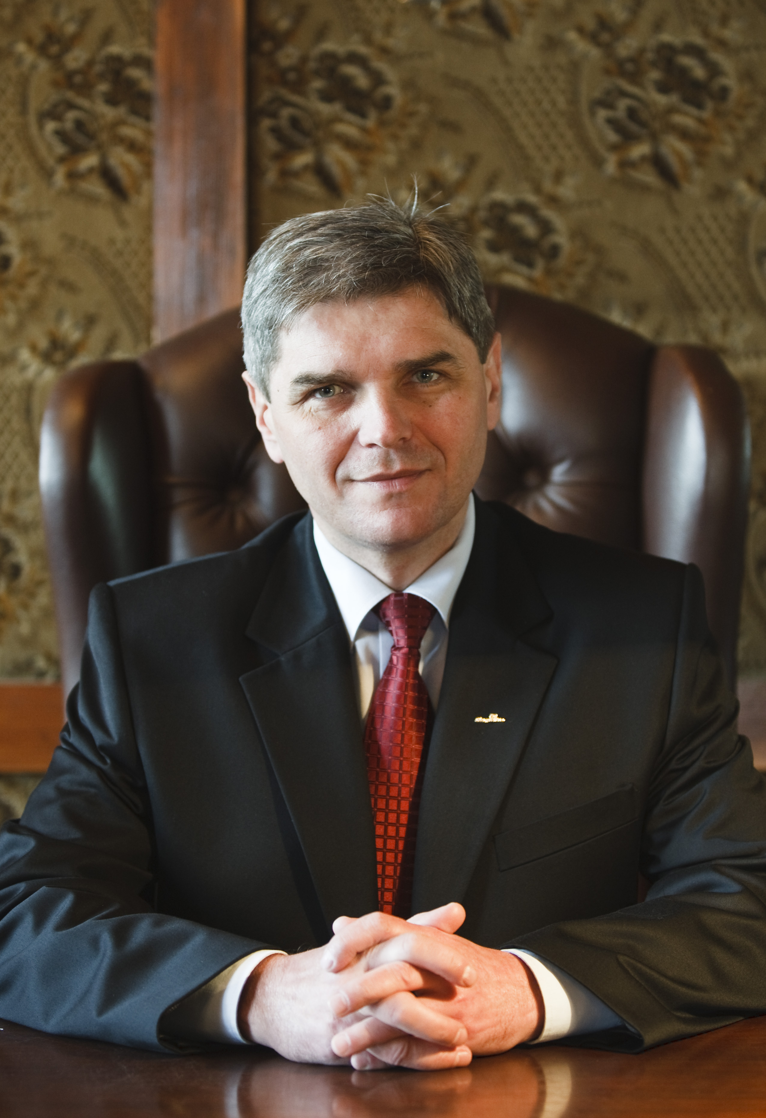 Bogusław Ziętek a candidate for President of Poland in 2010